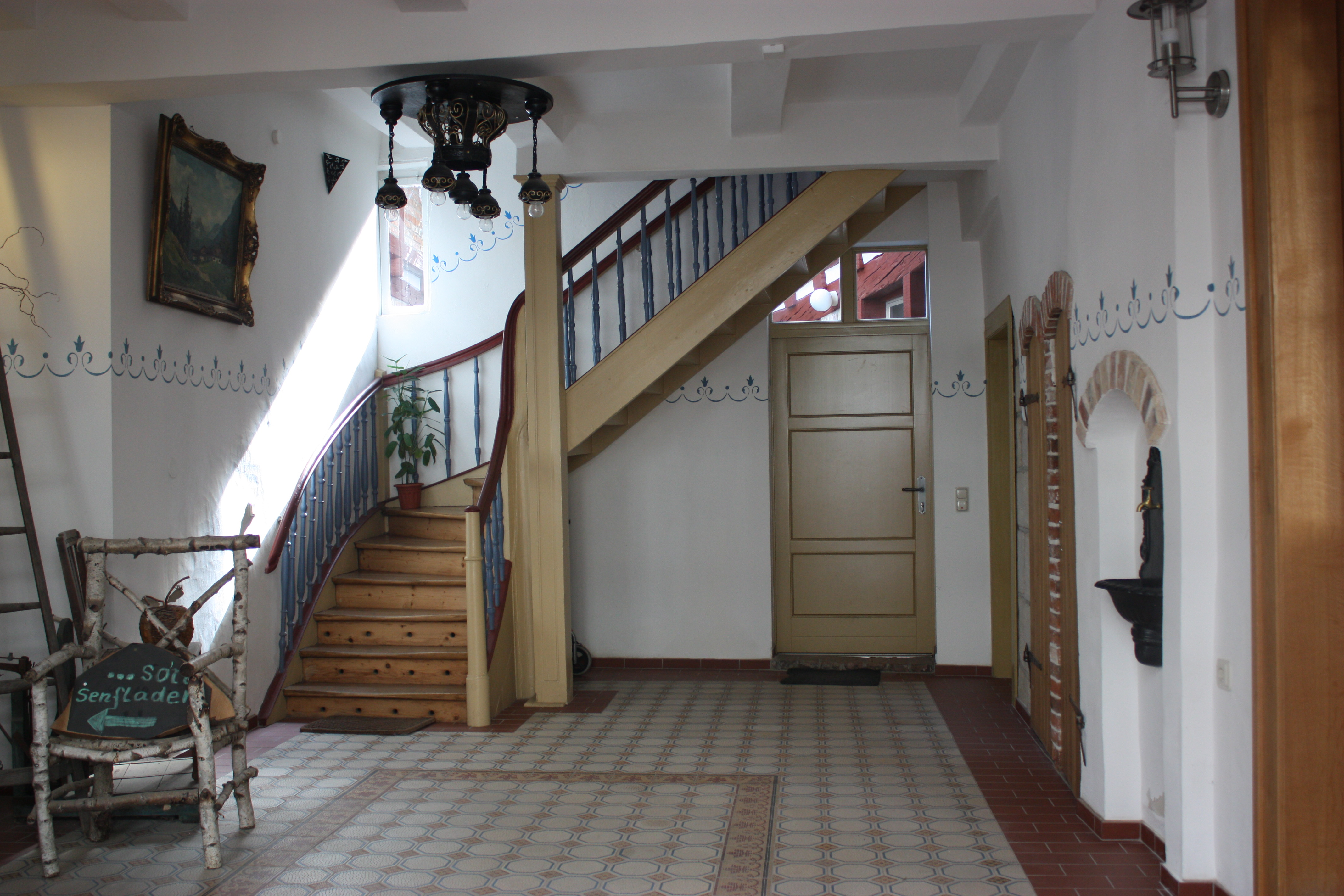 This is a photograph of an architectural monument.It is on the list of cultural monuments of Quedlinburg Hohe Straße 14 Innen